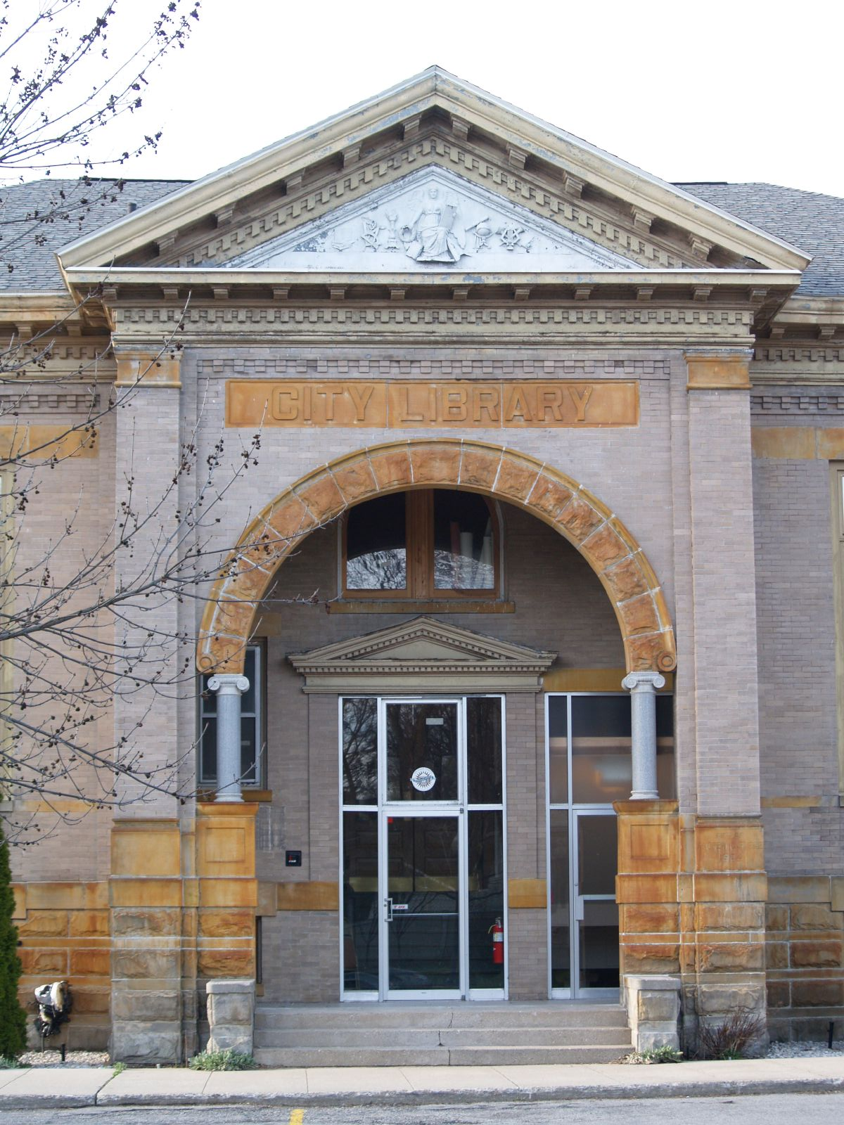 Carnegie Library Entrance. Traverse City, Michigan, (United States of America).